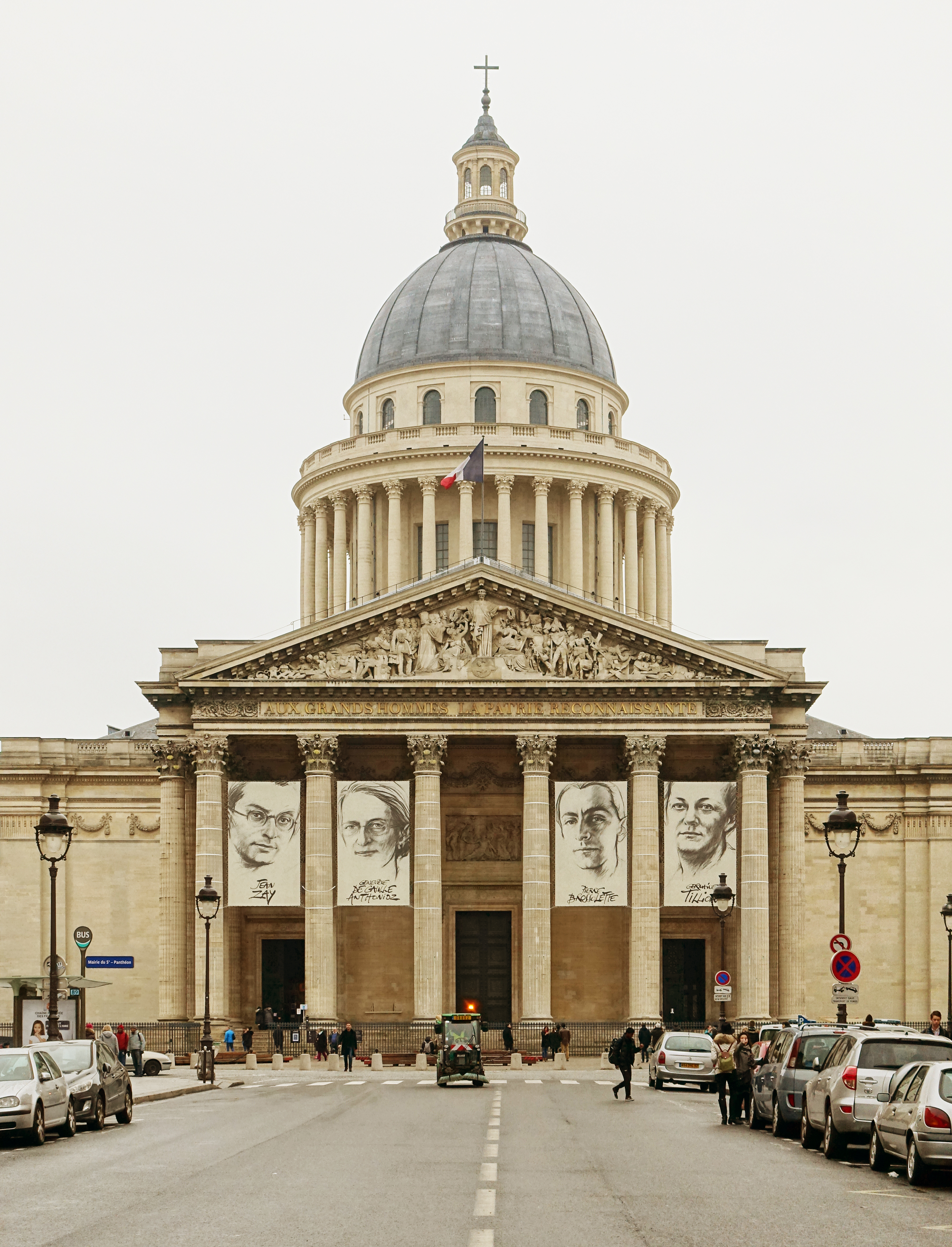 Facade of the Panthéon, Paris.